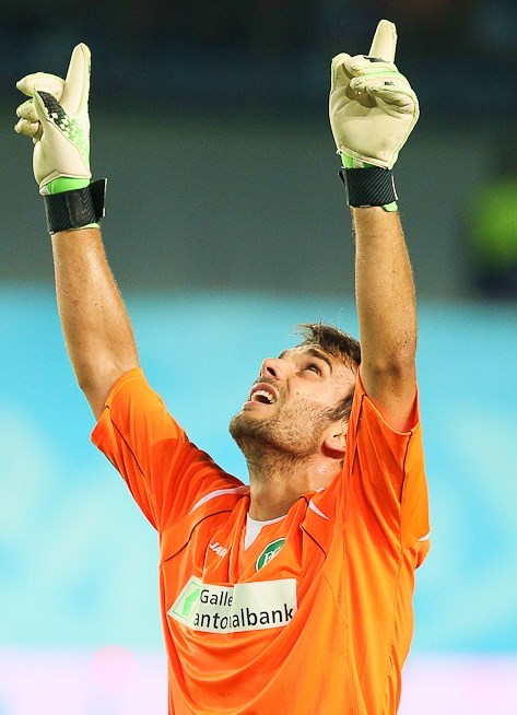 Daniel Lopar 2013